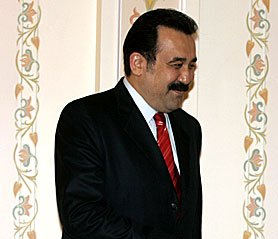 Karim Massimov, a Kazakh politician.